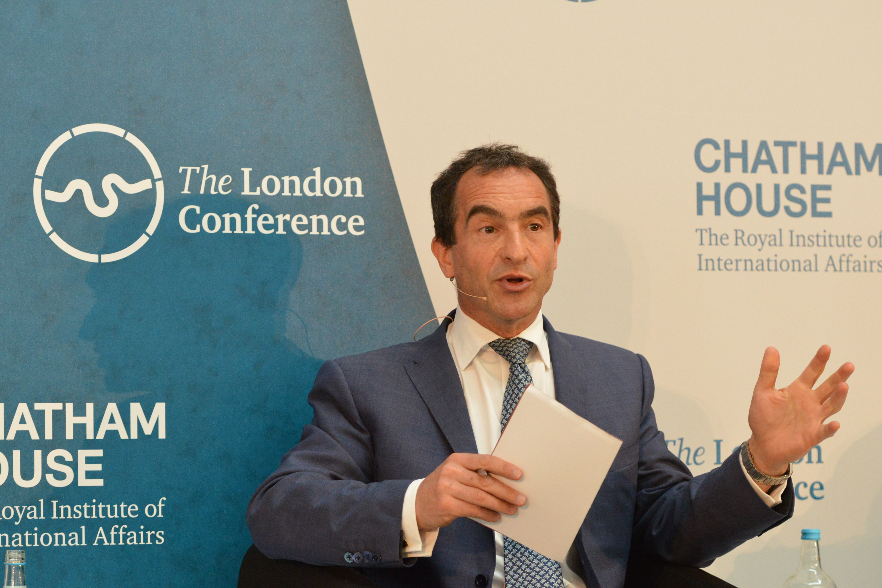 London Conference, 2 June 2015